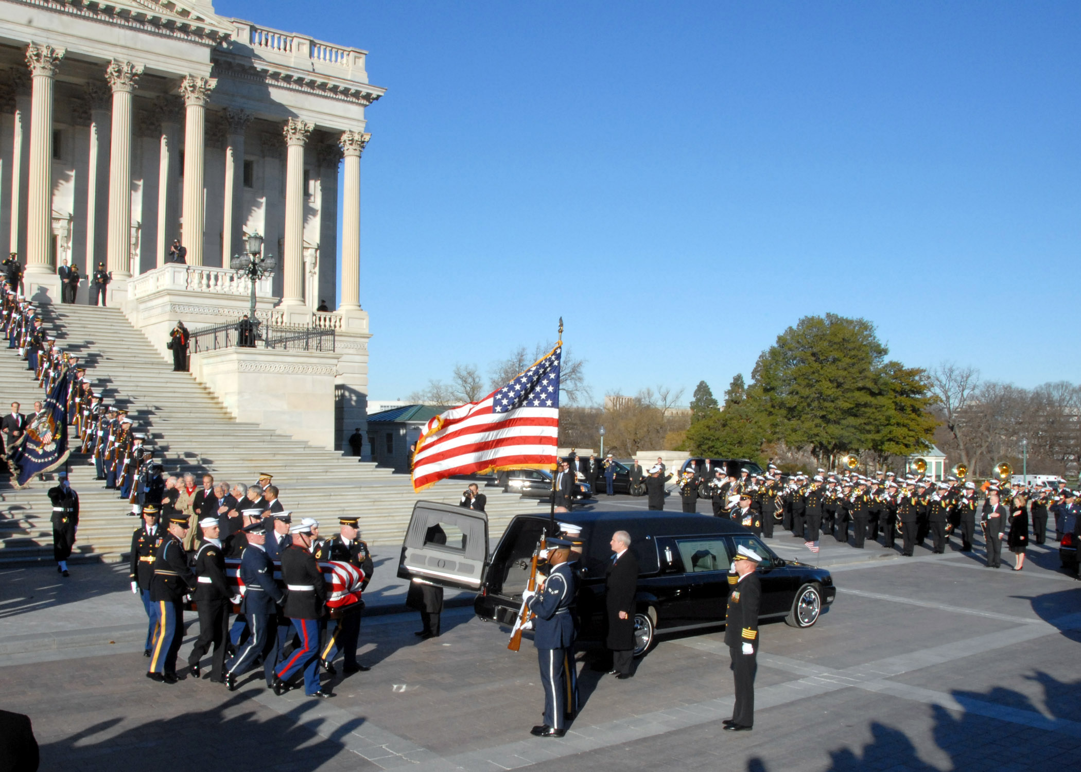 Washington, D.C. (Jan. 2, 2007) - The United States Navy Ceremonial Band plays, "Soul of My Savior," for former President Gerald R. Ford as his remains are carried down the east steps of the U.S. Capitol during the departure ceremony. A private interment service is scheduled for Jan. 3, 2007, at the Gerald R. Ford Presidential Museum in Grand Rapids, Mich. U.S. Navy photo by Chief Musician Stephen Hassay (RELEASED)